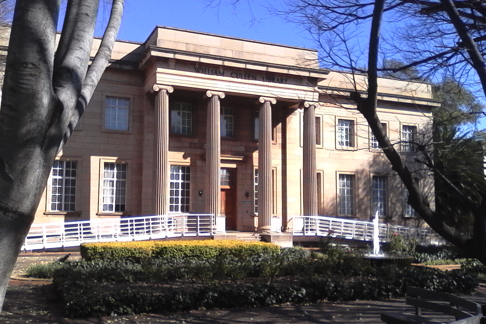 The William Cullen Library on the East Campus of the University of the Witwatersrand, Johannesburg. A cellphone photo, hence the low quality.